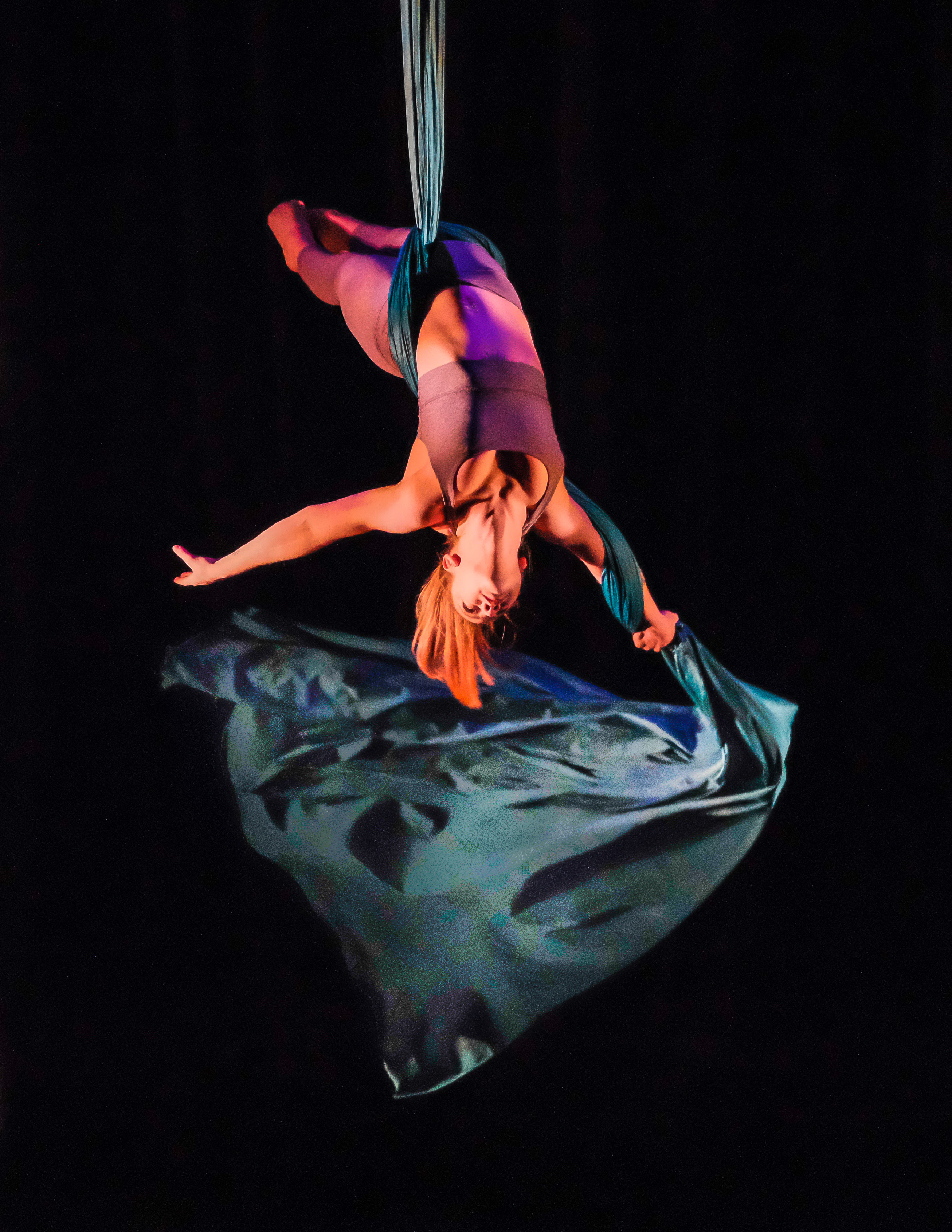 Blue Lapis Light student showcase performance in Austin, Texas, USA.